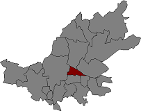 Location of Alió in Alt Camp